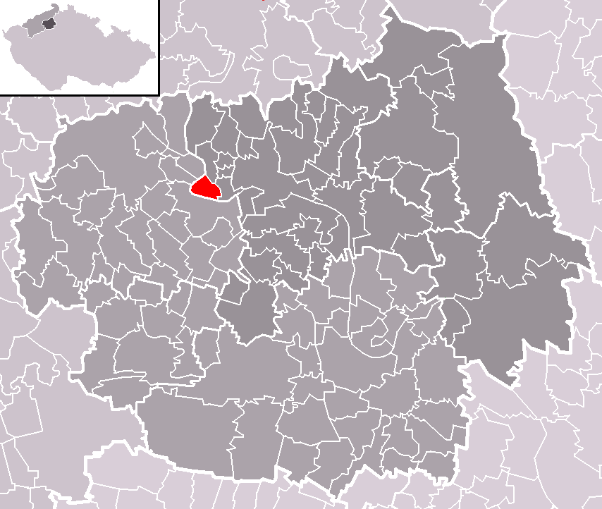 Location of Píšťany municipality within Litoměřice District and administrative area of Litoměřice as a Municipality with Extended Competence.